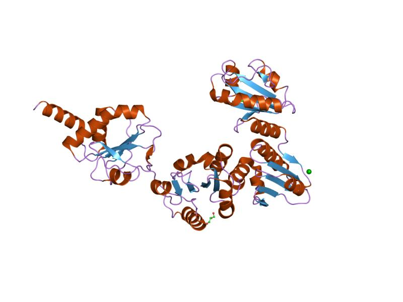 Cartoon representation of the molecular structure of protein registered with 2b5e code.